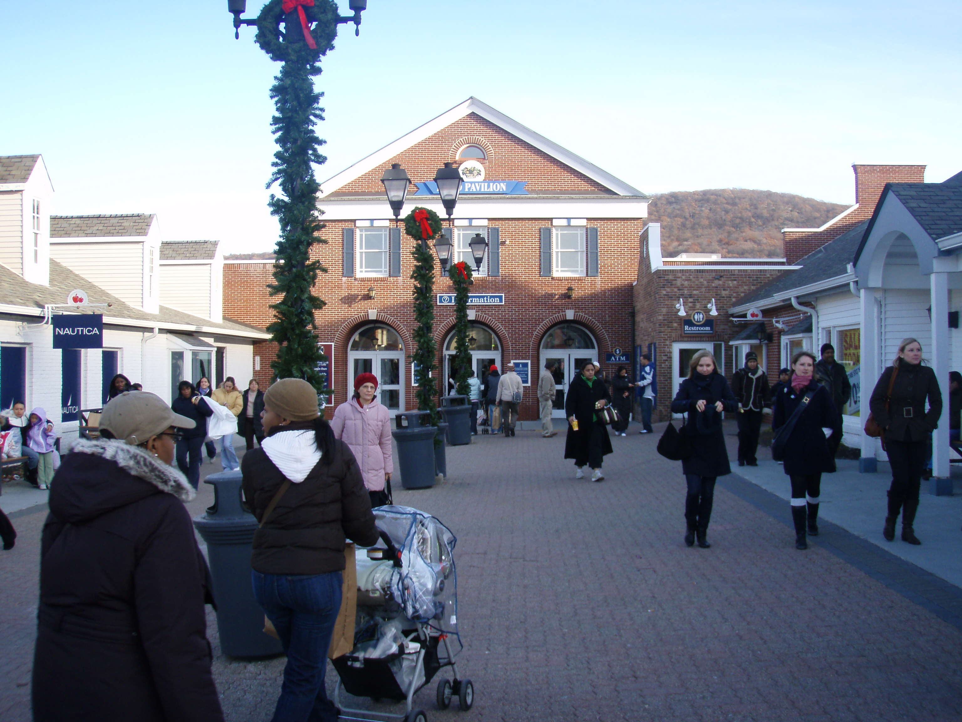 Outside the Food Pavilion at Woodbury Common Premium Outlets in Central Valley, New York. Picture taken by User:NHRHS2010 on December 1, 2007.